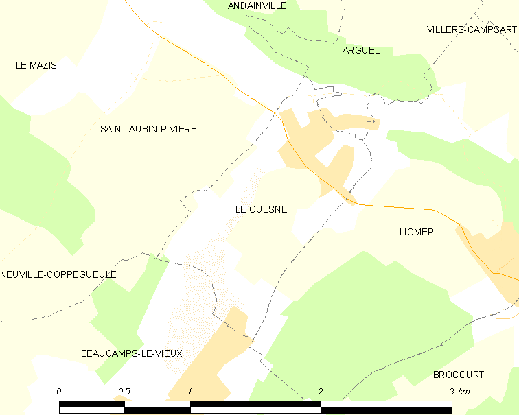 Map of French municipality Le Quesne